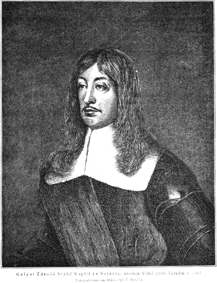 Portrait of Zdeněk Kašpar Kaplíř ze Sulevic (Count Zdeněk Kašpar Kaplíř of Sulevice), Czech military leader active in and after the 30-year war. In 1683, he defended Vienna against the Turks.